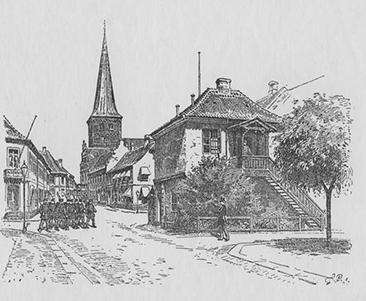 Tower of Vor Frue Kirke (Our Lady`s Church) behind Korsbrødregården (Knights Hospitaller house), seen from the Strand Bastion of Nyborg fortifications